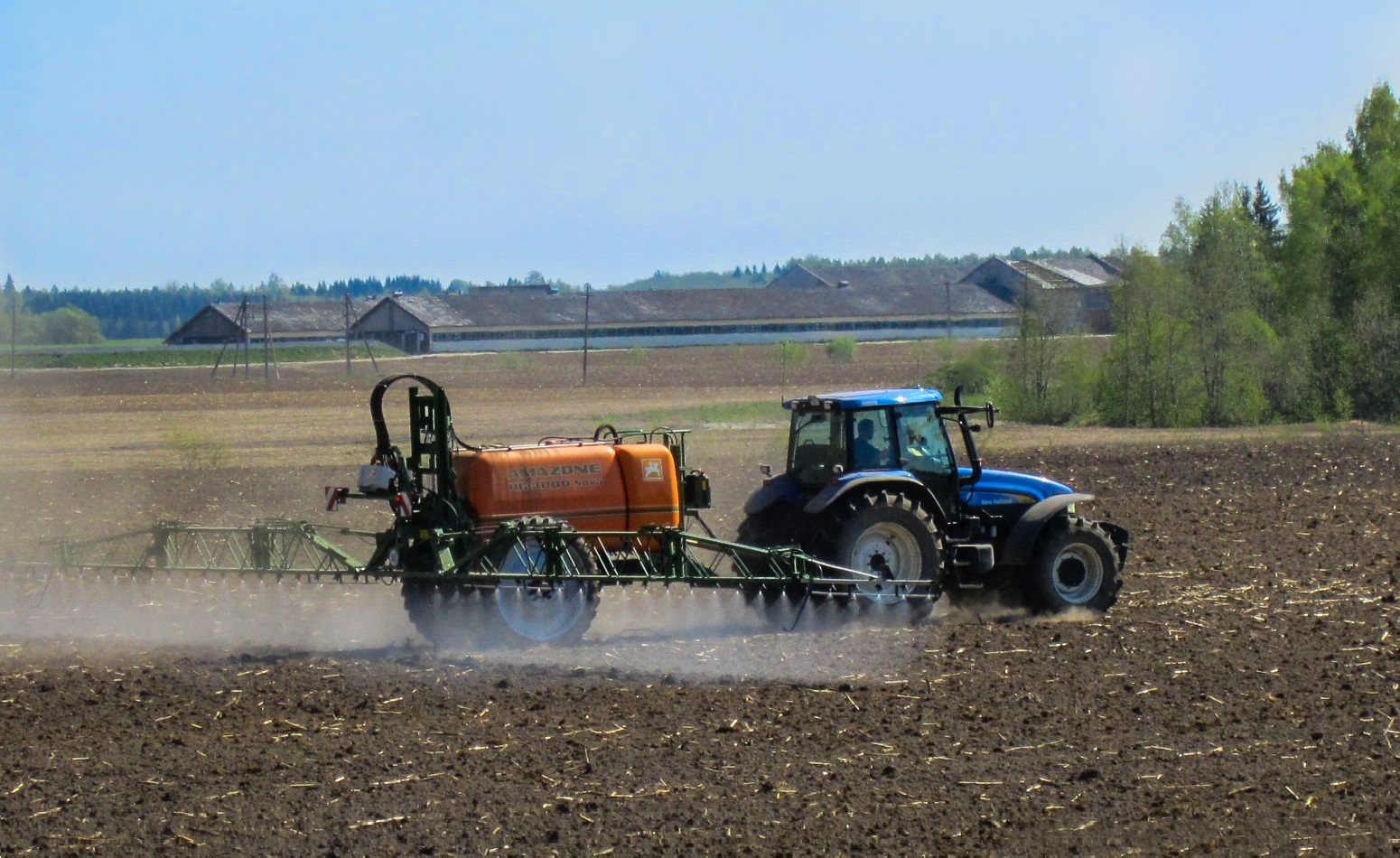 Spraying of pesticides (by AMAZONE UG 3000 Nova) in spring. (Estonia)